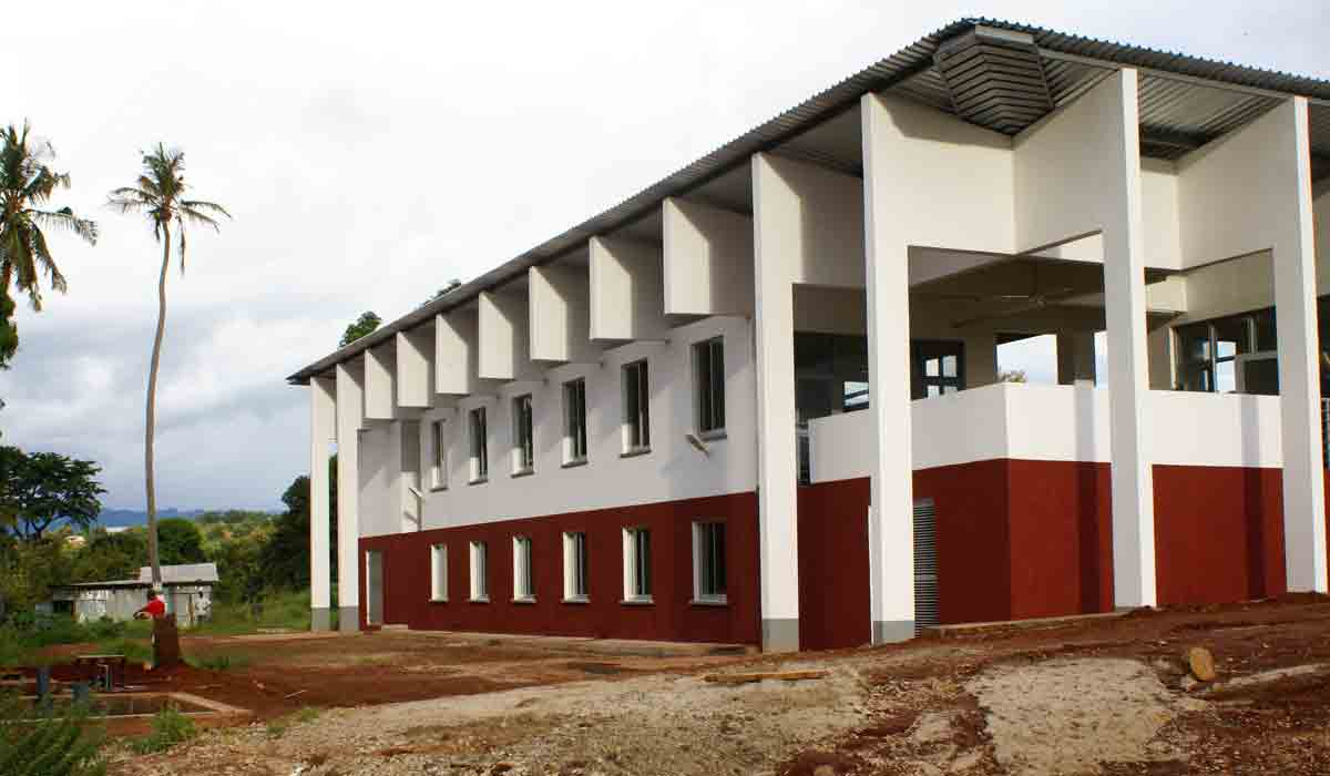 NIMR Korogwe Research Laboratory, Korogwe Field Station, NIMR Tanga Center